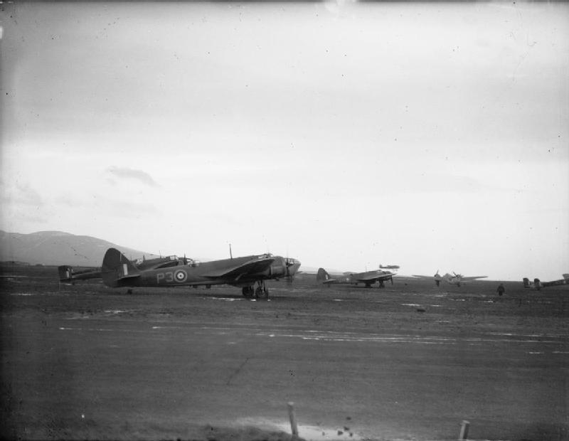 Royal Air Force Flying Training Command, 1940-1945. Bristol Blenheim Mark IV, Z5969 'P3', taxies past other Blenheims and Handley Page Hampdens of No. 5 Air Observers School, in an early January morning at Jurby, Isle of Man.